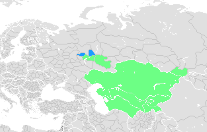 Reichkommisariat Turkestan with blue being the Soviet republics of Mari El and Udmurtia